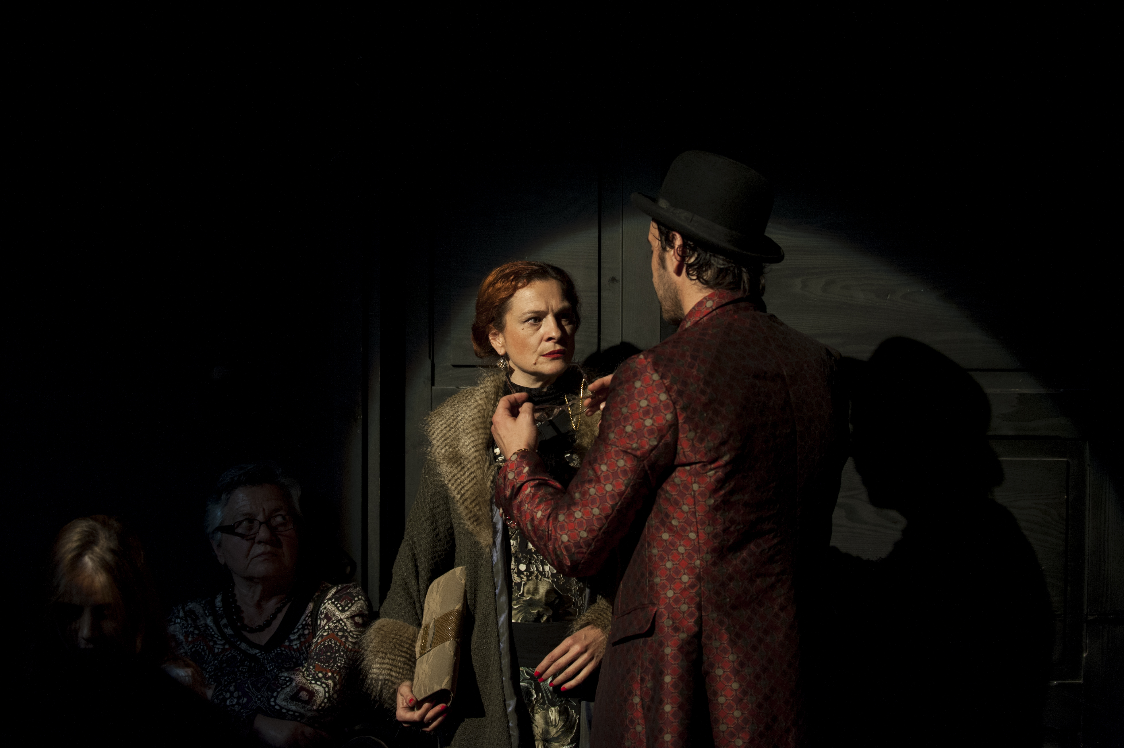 "The Threepenny Opera", a "play with music" by Bertolt Brecht, with music by Kurt Weill, directed by Tomi Janežič, Drama of the Serbian National Theatre & The Royal Theatre Zetski Dom (Co-Production), Cetinje, 2014/15; Jasna Đuričić Srpski (latinica): „Opera za tri groša”, mjuzikl koji je napisao Bertold Breht, a za koji je muziku komponovao Kurt Veil; režija Tomi Janežič, Koprodukcija:Drama Srpskog narodnog pozorišta i Kraljevsko pozorište Zetski dom, 2014-15, Cetinje; Jasna Đuričić Српски (ћирилица): „Опера за три гроша“, мјузикл који је написао Бертолд Брехт, за који је музику компоновао Курт Веил; режија Томи Јанежич, Копродукција: Драма Српског народног позоришта и Краљевско позориште Зетски дом, 2014-15, Цетиње; Јасна Ђуричић